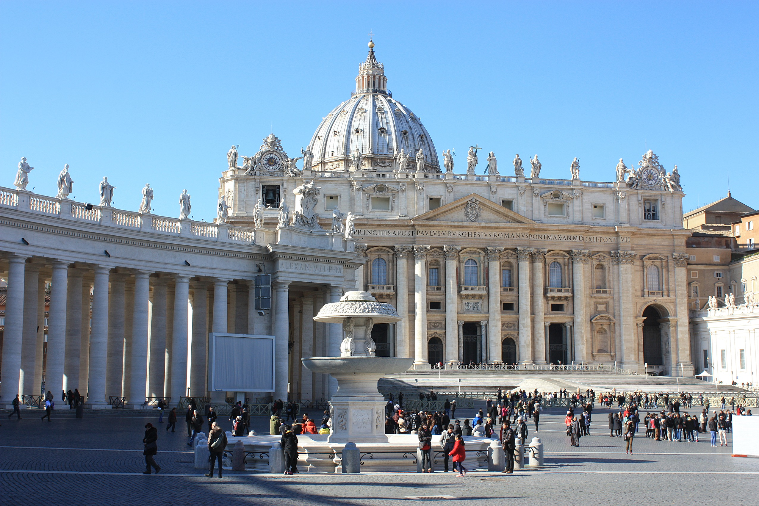 Vatican, the Saint Peter's Basilica and the fountain in Saint Peter's Square